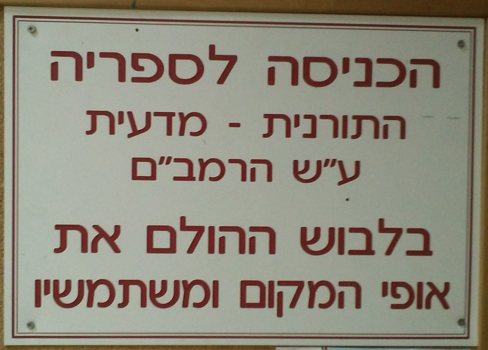 Dress code request at Beit Ariela library, Tel Aviv